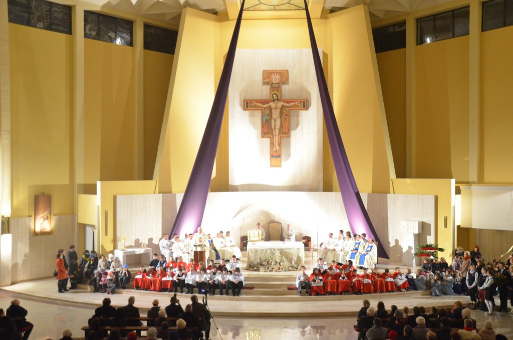 Śrem, the Church of the Sacred Heart of Jesus, the high altar.